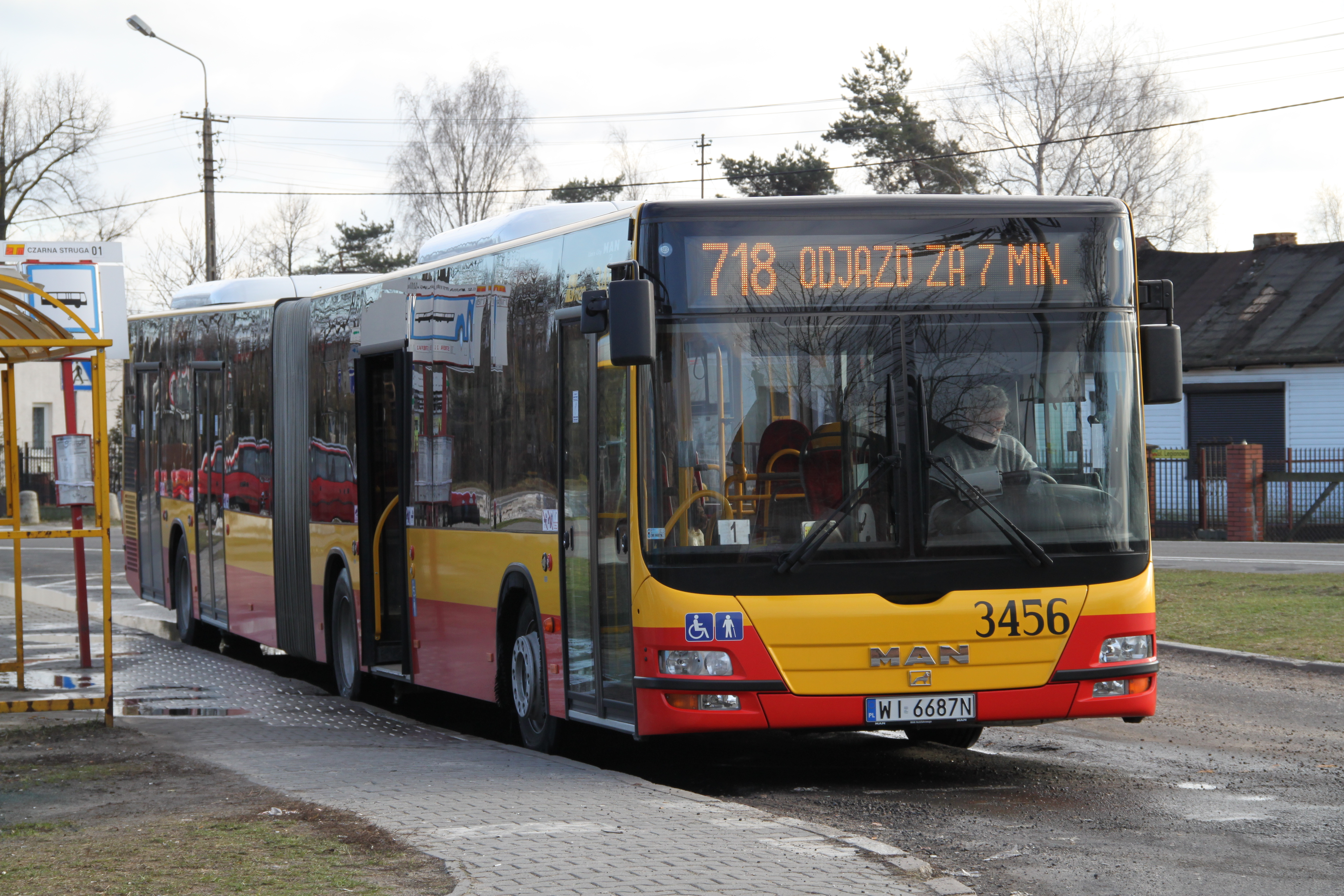 MAN NG 363 Lion's City G bus (#3456, built in 2010, MZA Warszawa operator) on line 718, Legionowa Street, Marki, Poland.